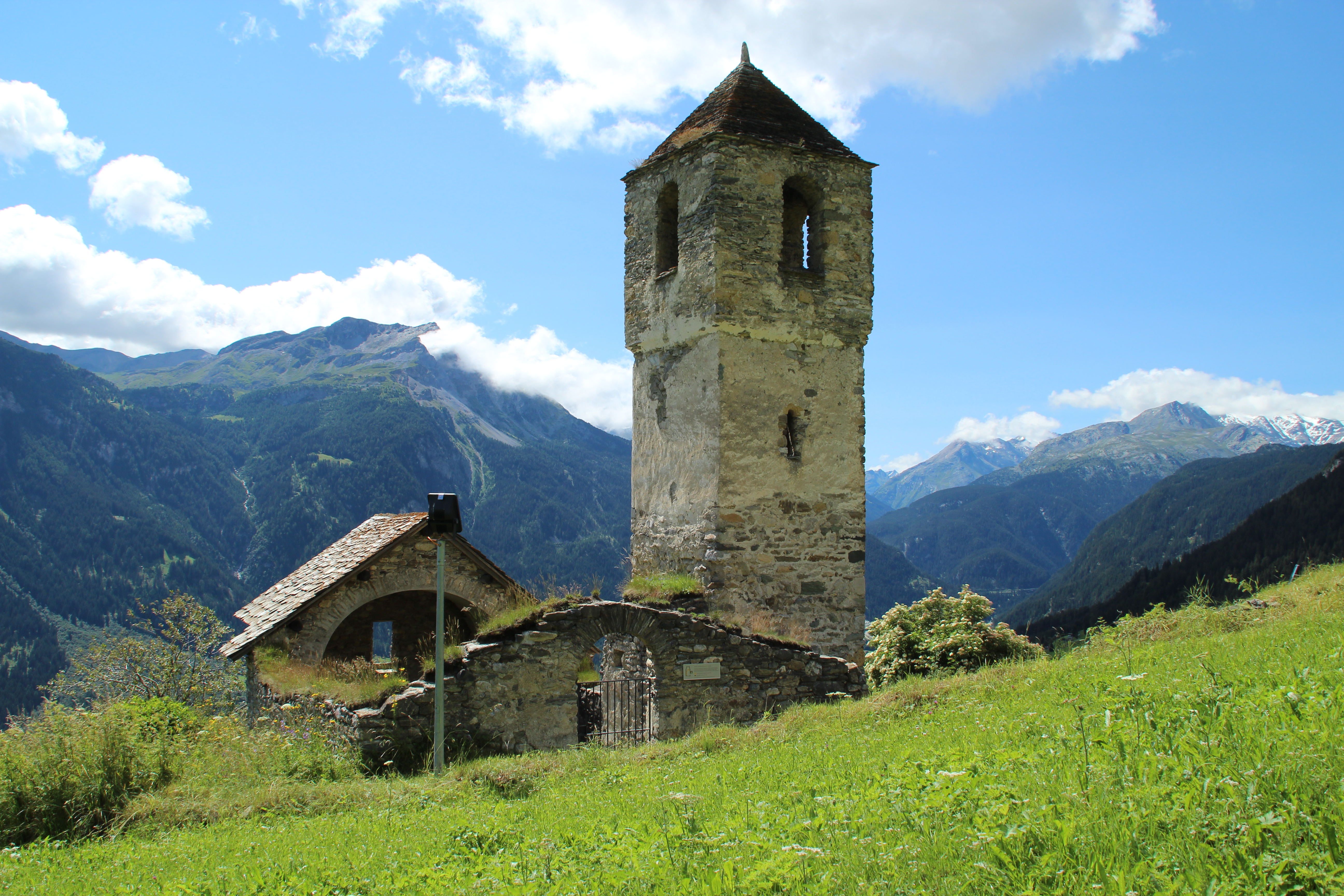 Antoniuskirche Mathon